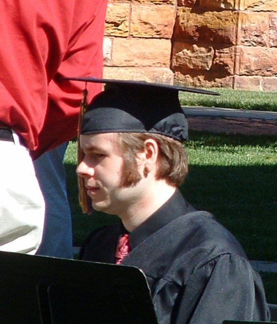 Sideburns, as illustrated by this unidentified graduate of Knox College.